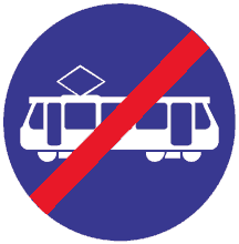 Luxembourg road sign diagram